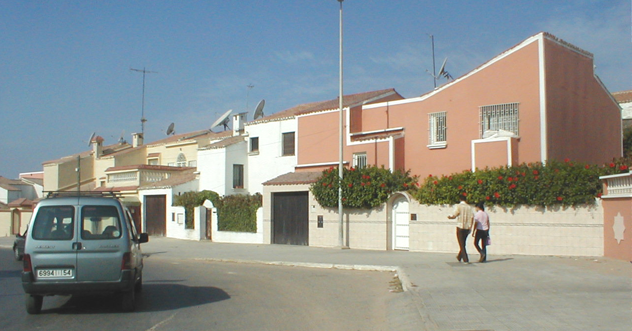 District "bled el Jed" in the city of Asfi, Morocco, with French style dwellings (tile roofs). These modest houses are occupied by workers in the phosphate factories.